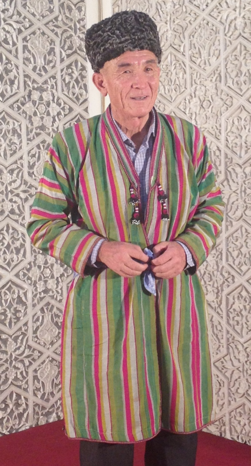 People's bakshy of Uzbekistan Abdunazar Poyonov in 2016